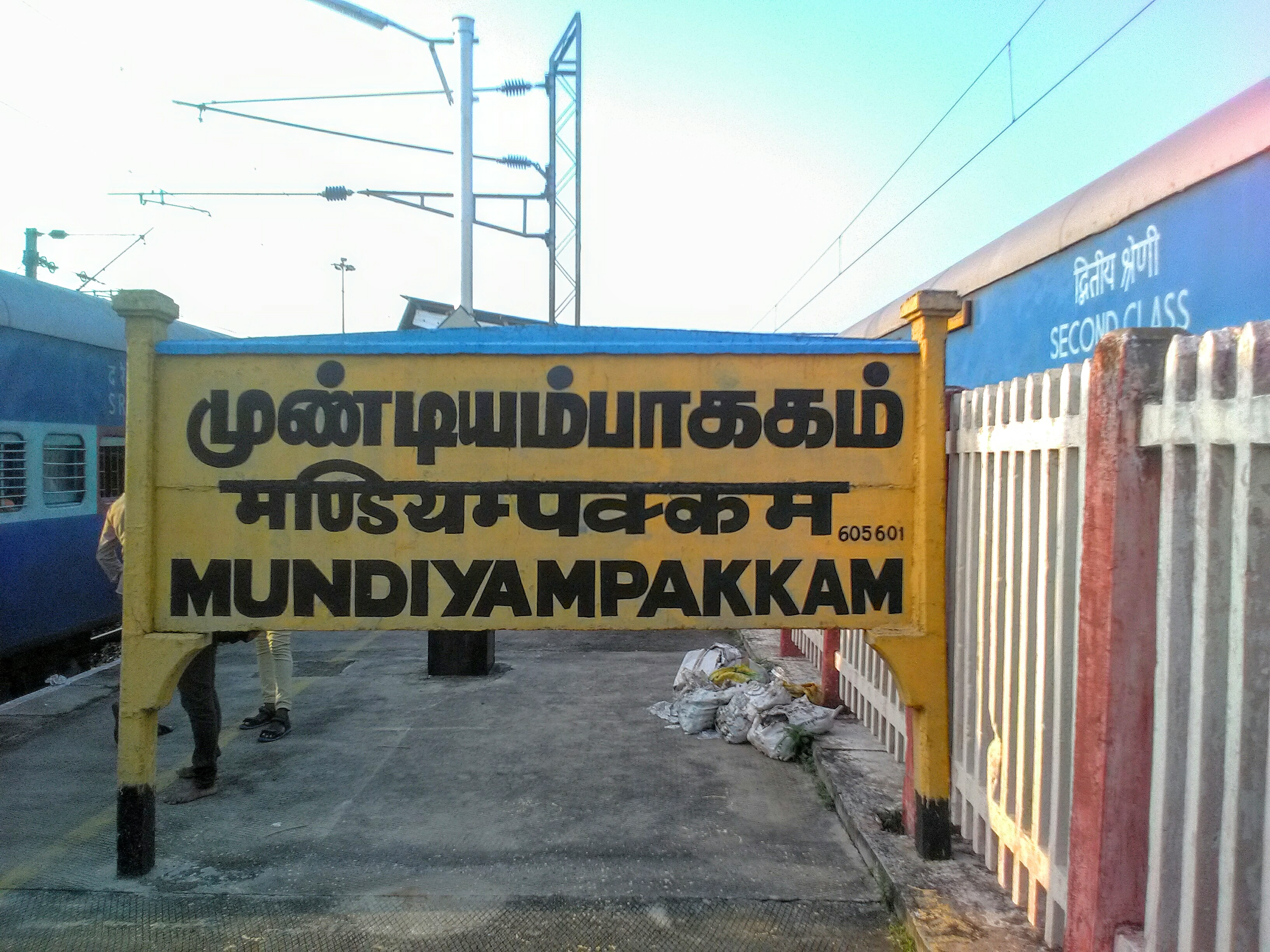 Mundiyampakkam Railway Sation